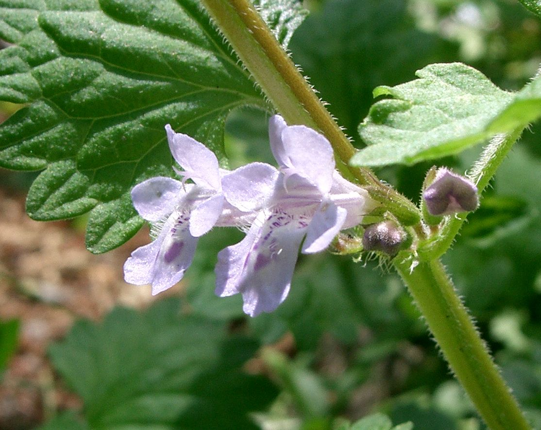 Glechoma hederacea subsp. grandis